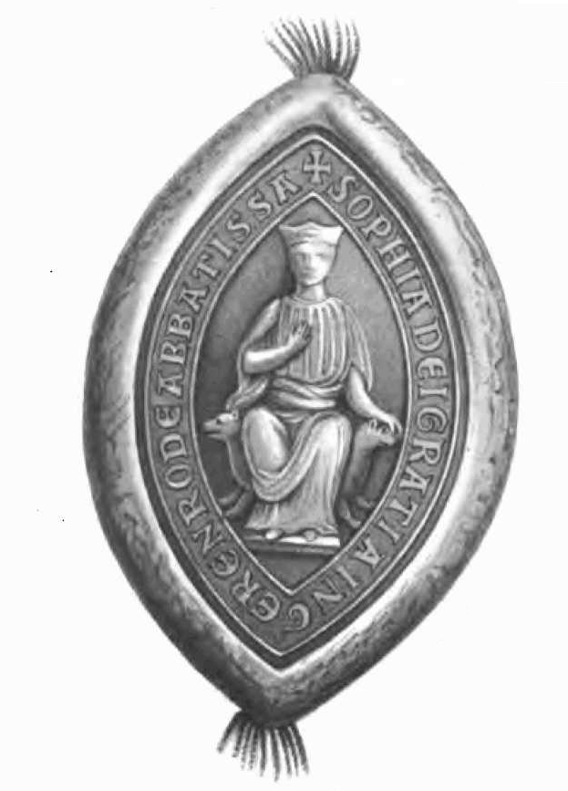 Seal of the Abbess of Gernrode - Sophia von Aschersleben und Anhalt